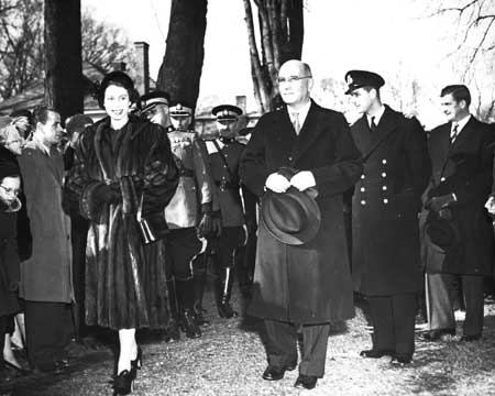 Princess Elizabeth walks with Premier of New Brunswick John B. McNair from the Cathedral to the Legislative Assembly Building in Fredericton, New Brunswick, Canada.